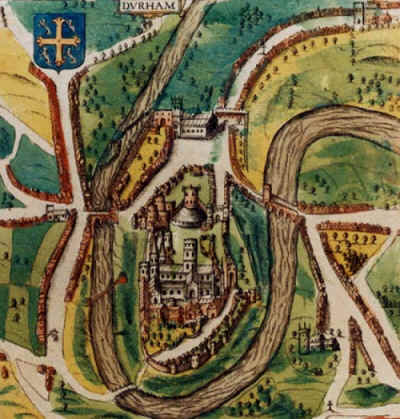 A map of Durham, England from 1610, by the famous cartographer John Speed. The cathedral and castle are shown, as is the River Wear which surrounds the city on three sides.